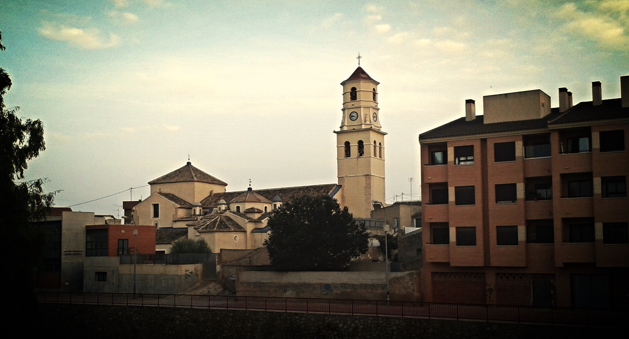 S.t Agustine Church in Fuente Álamo (Murcia)